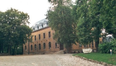 Runneburg - former Prussian district office